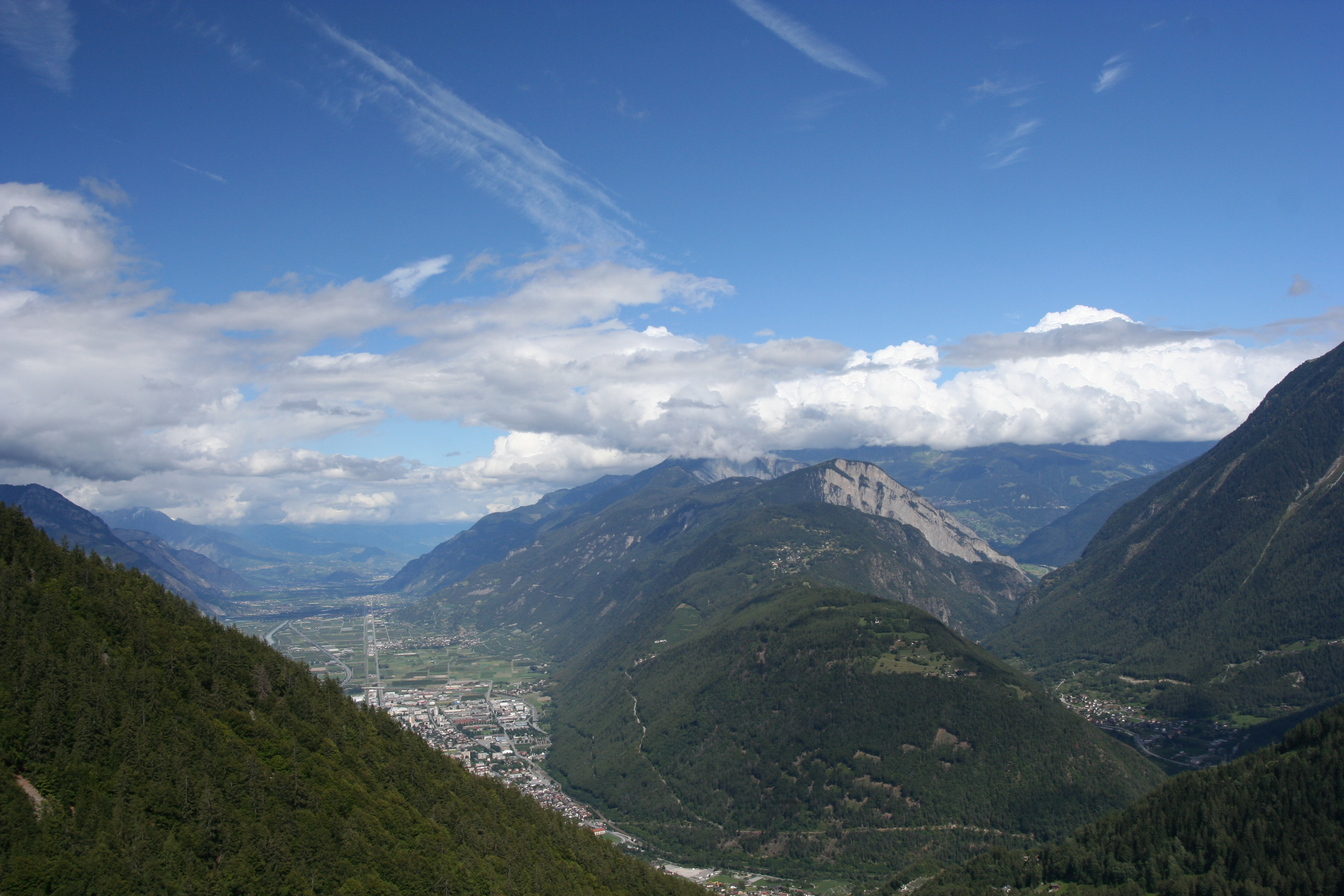 Valais, Leytron